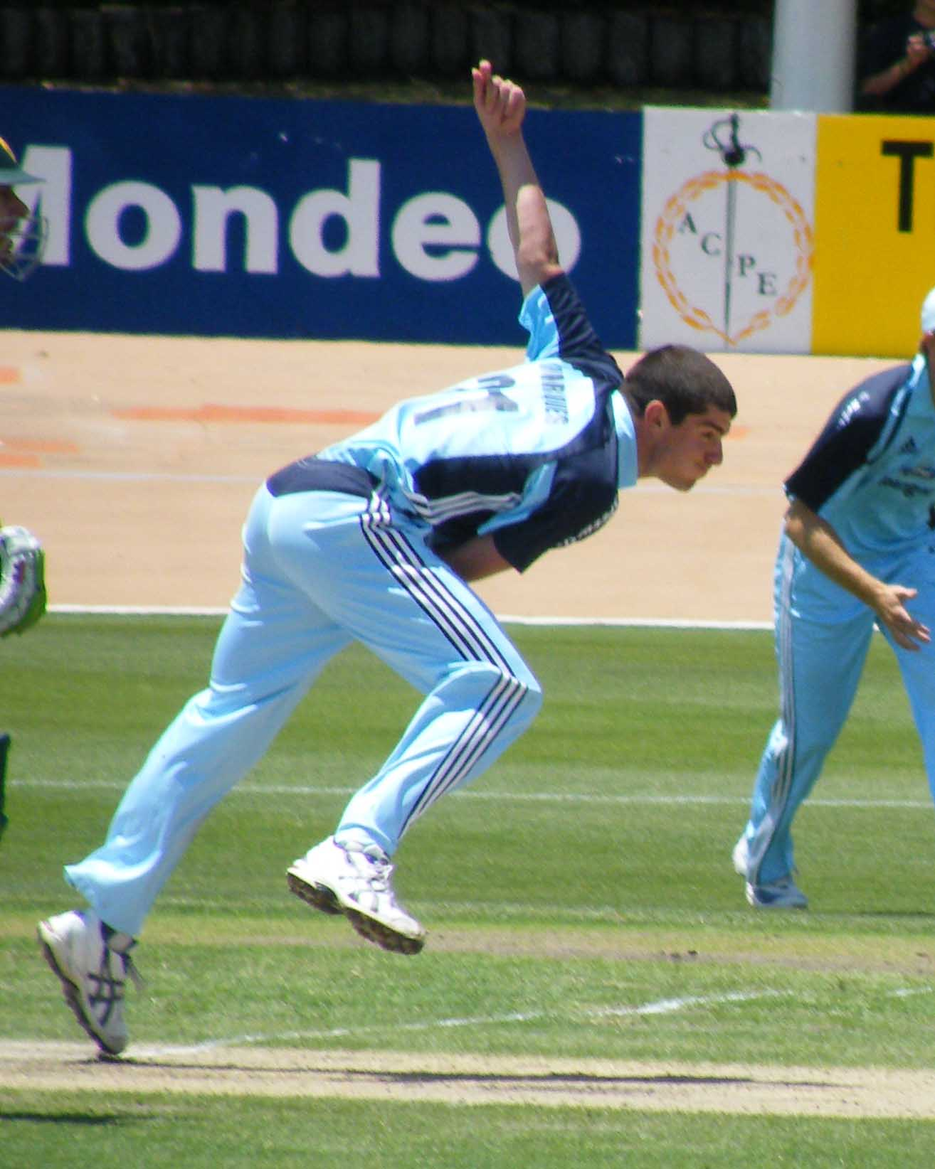 NSW Cricketer Moises Henriques - NSW v Tasmania, Hurstville Oval. Saturday 29 November 2008.